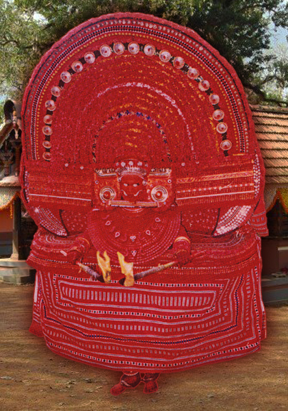 Muchilot Bhagavathi performed in Perne Muchilot Bhagavathi Kshethra, Kasaragod